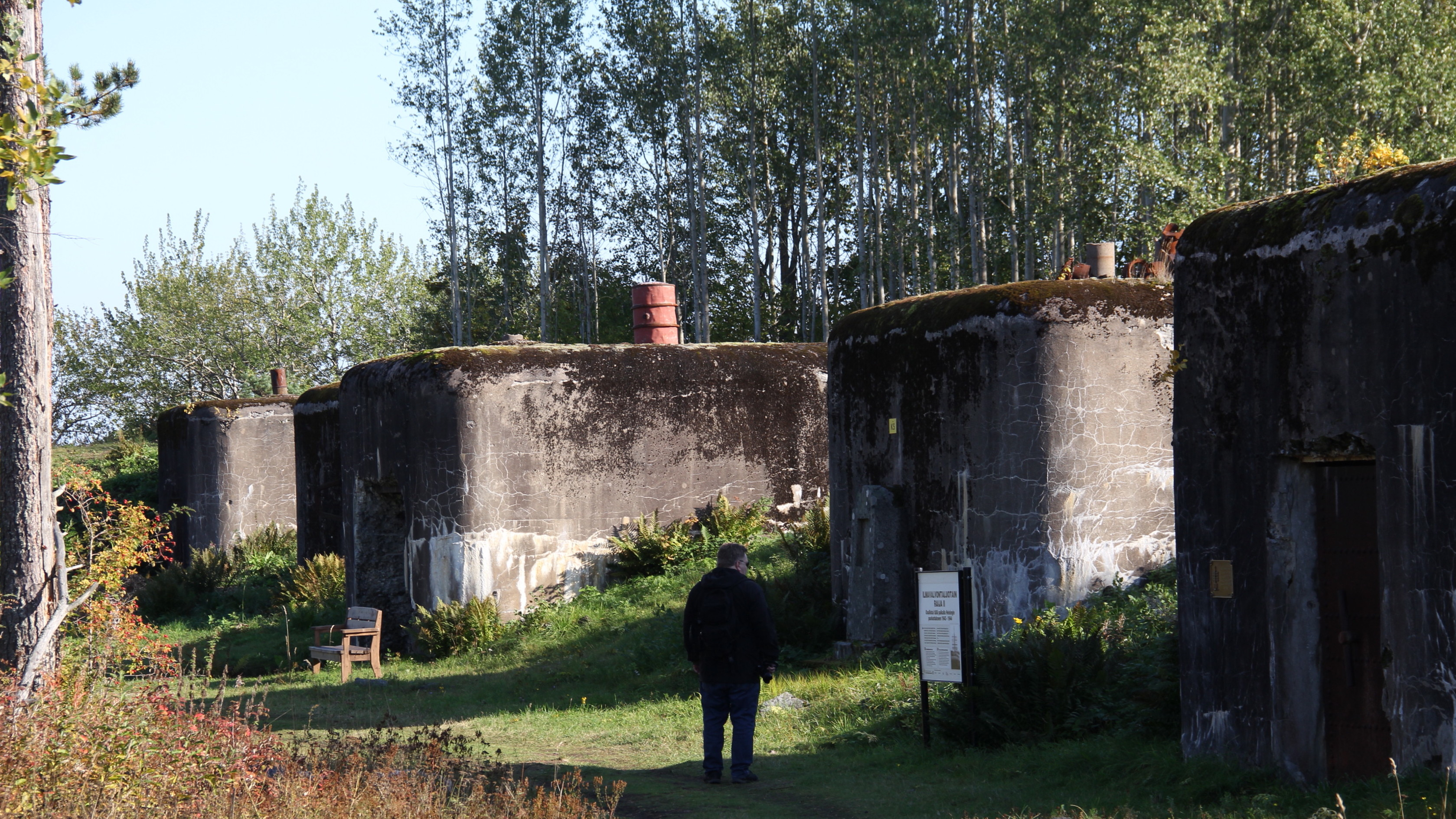 Raija II air traffic controller WW2 site, Kuninkaansaari, Helsinki. - Location of WW2 air traffic controller Raija II in Kuninkaansaari, Suomenlinna area, Helsinki, Finland. Plaque and info sign were unveiled in September 4th 2018.